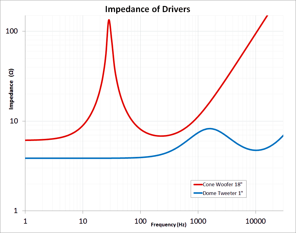 Impedance of a Bass Cone Driver (Visaton PAW 46 - 8 Ohm) and a Dome Tweeter (Peerless H26TG35-06). fs = 29 Hz, Qms = 8.97, Qes = 0.38, Rdc = 6.1 Ohm, L = 1.5 mH fs = 1600 Hz, Qms = 0.58, Qes = 0.51, Rdc = 3.86 Ohm, L = 0.03 mH